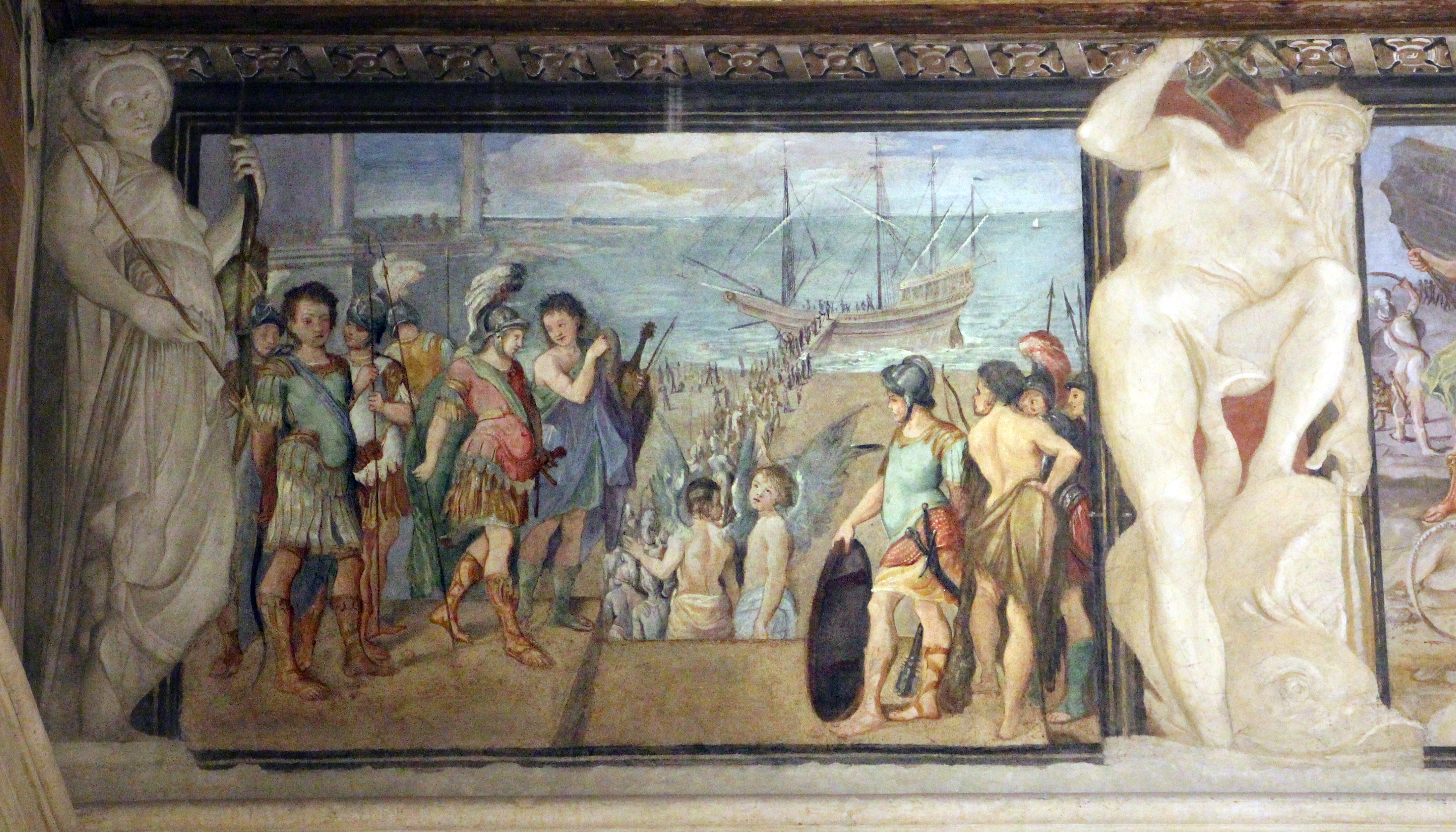 Frieze of Jason and Medea